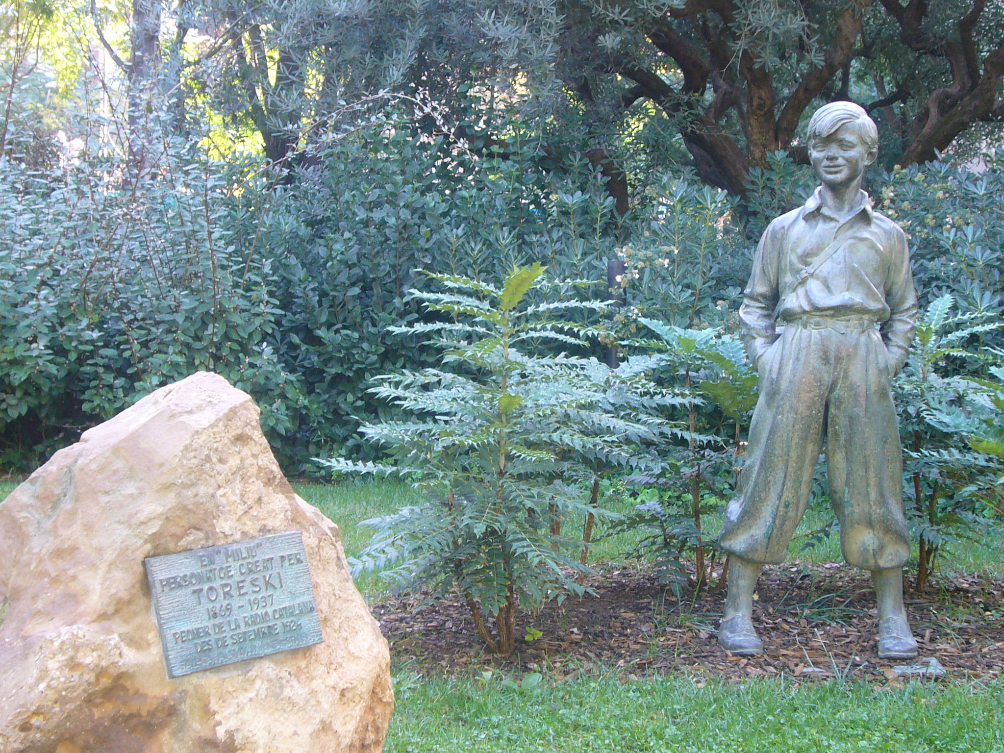 Statue of "En Miliu", a character created by Toresky, one of the Radio pioneers in Catalonia. Located at the plaça de la Sagrada Família. Sculptor: Angel Tarrac.